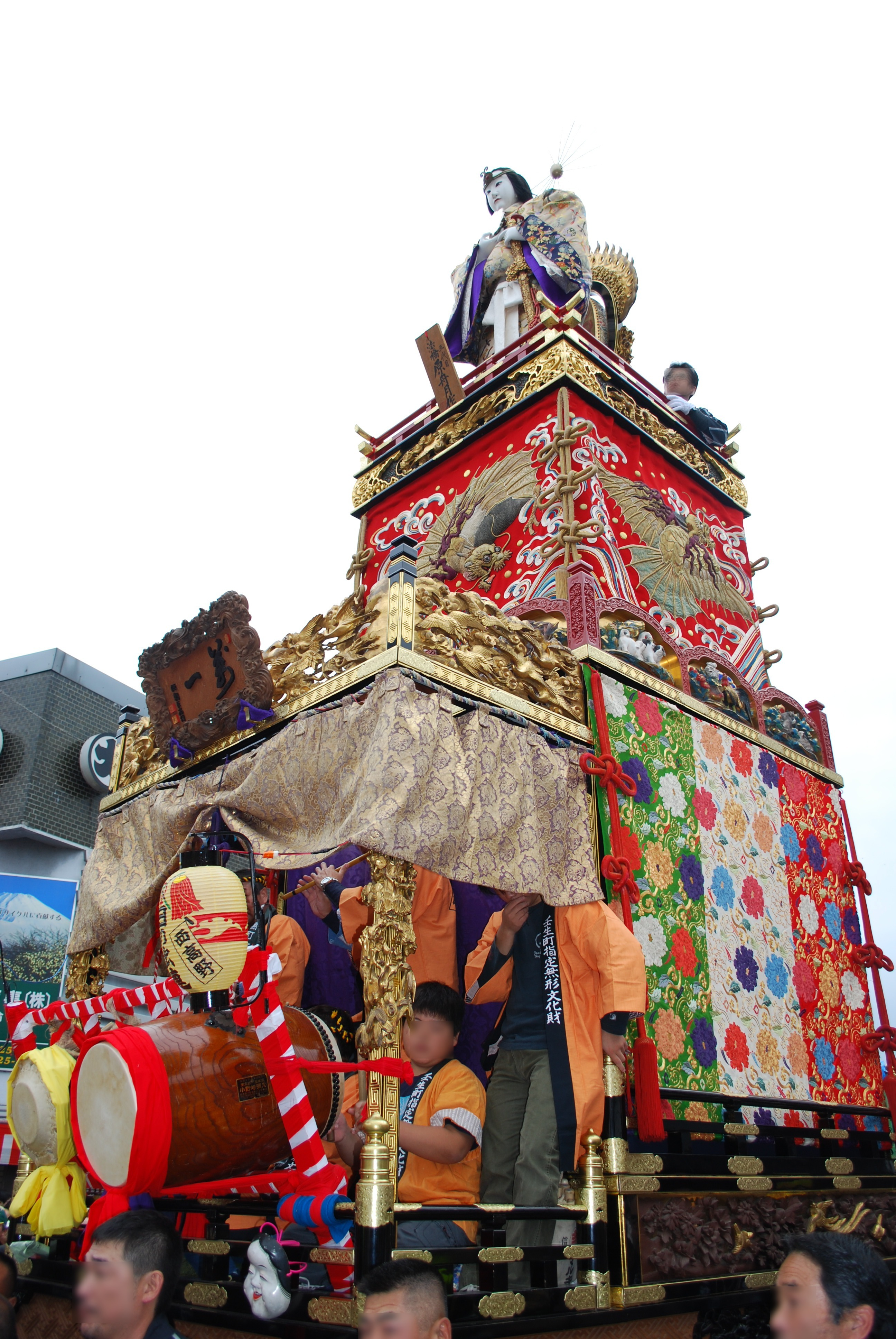 Tochigi autumn festival,festival car of Yorozucho1chome,tochigi city,japan